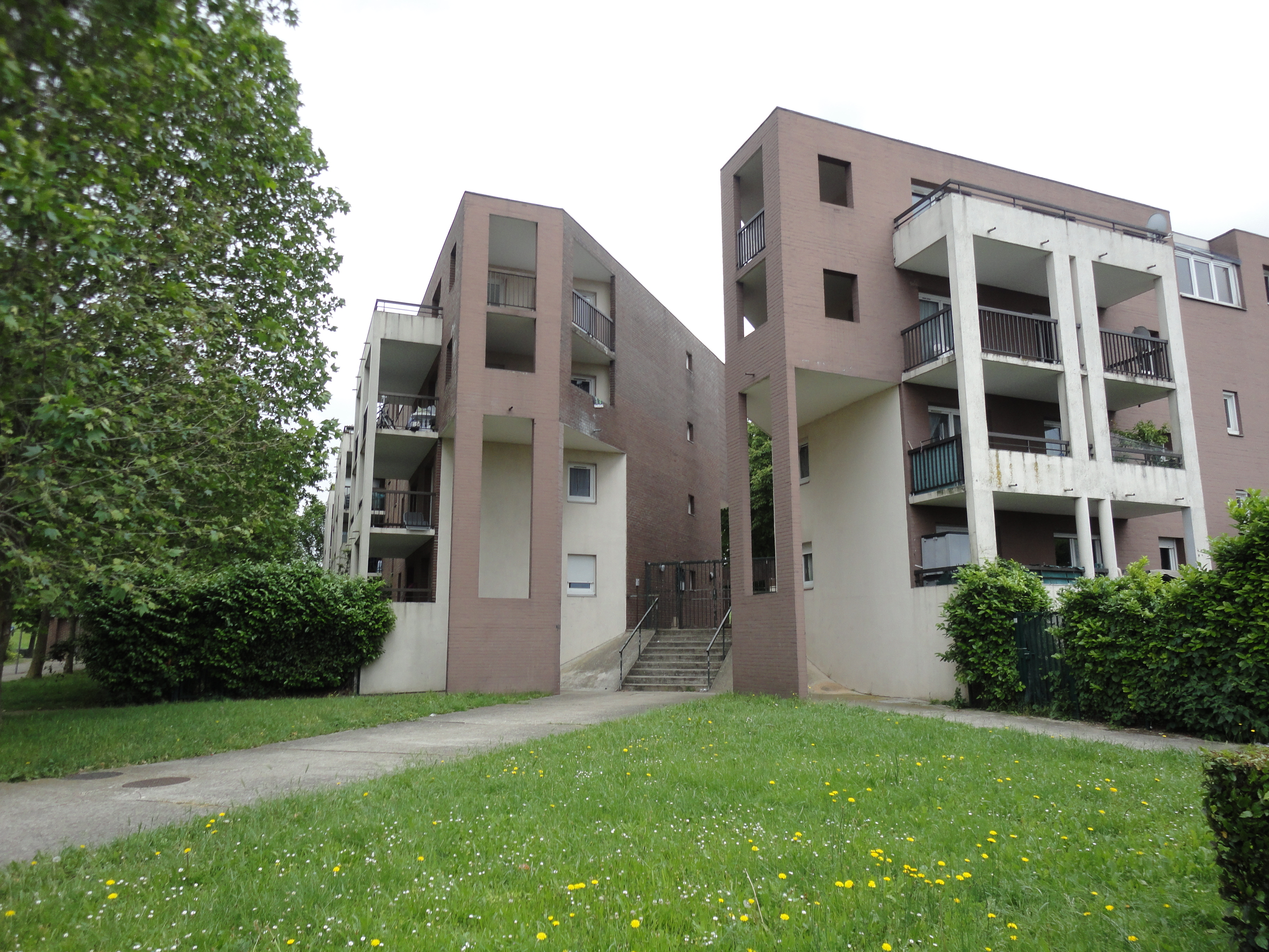 The Carré Noir building